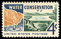 image of US postage stamp issued 1960